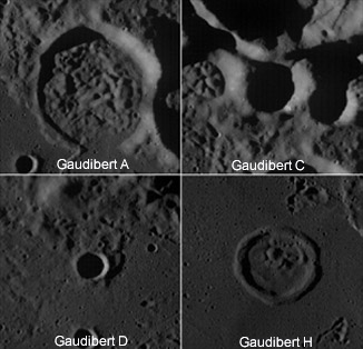 LRO WAC view (M117249908ME) of the satellite craters.